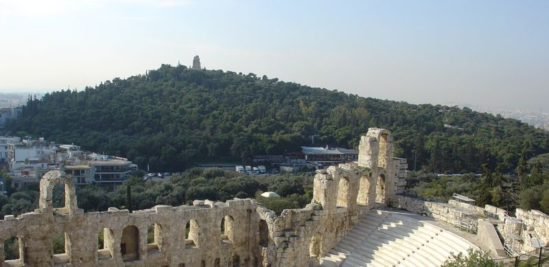 A view of Philopappos hill from the Acropolis, with the Herodes Atticus Odeion.